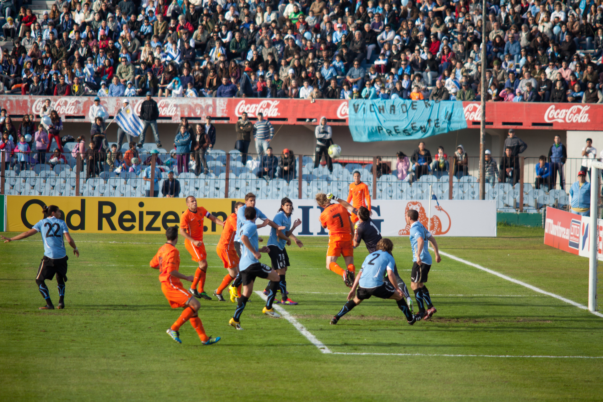 Uruguay 4-3 victory on penalties to Netherlands to win Copa Confraternidad after 1-1 draw